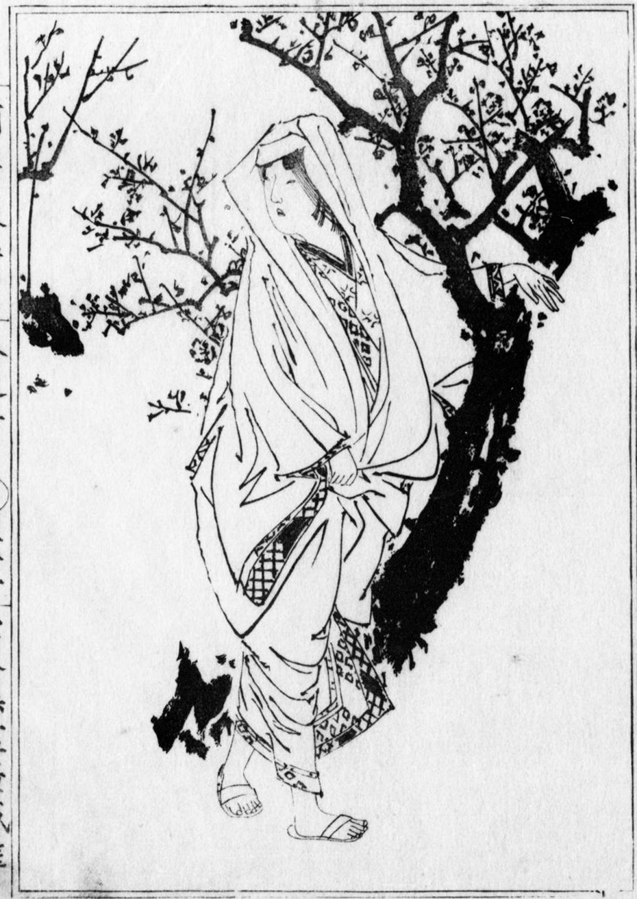 Daughter of FUJIWARA Shunzei looks plum flower,and creates a short poem.